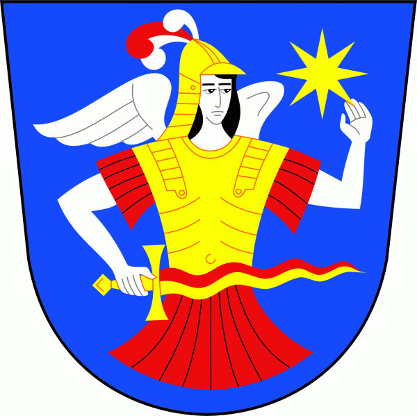 znak obce Machová